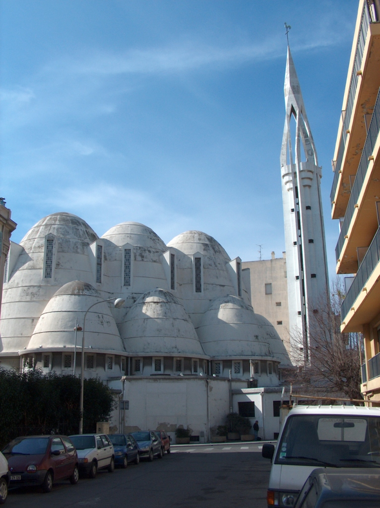 Liberation, Nice, France